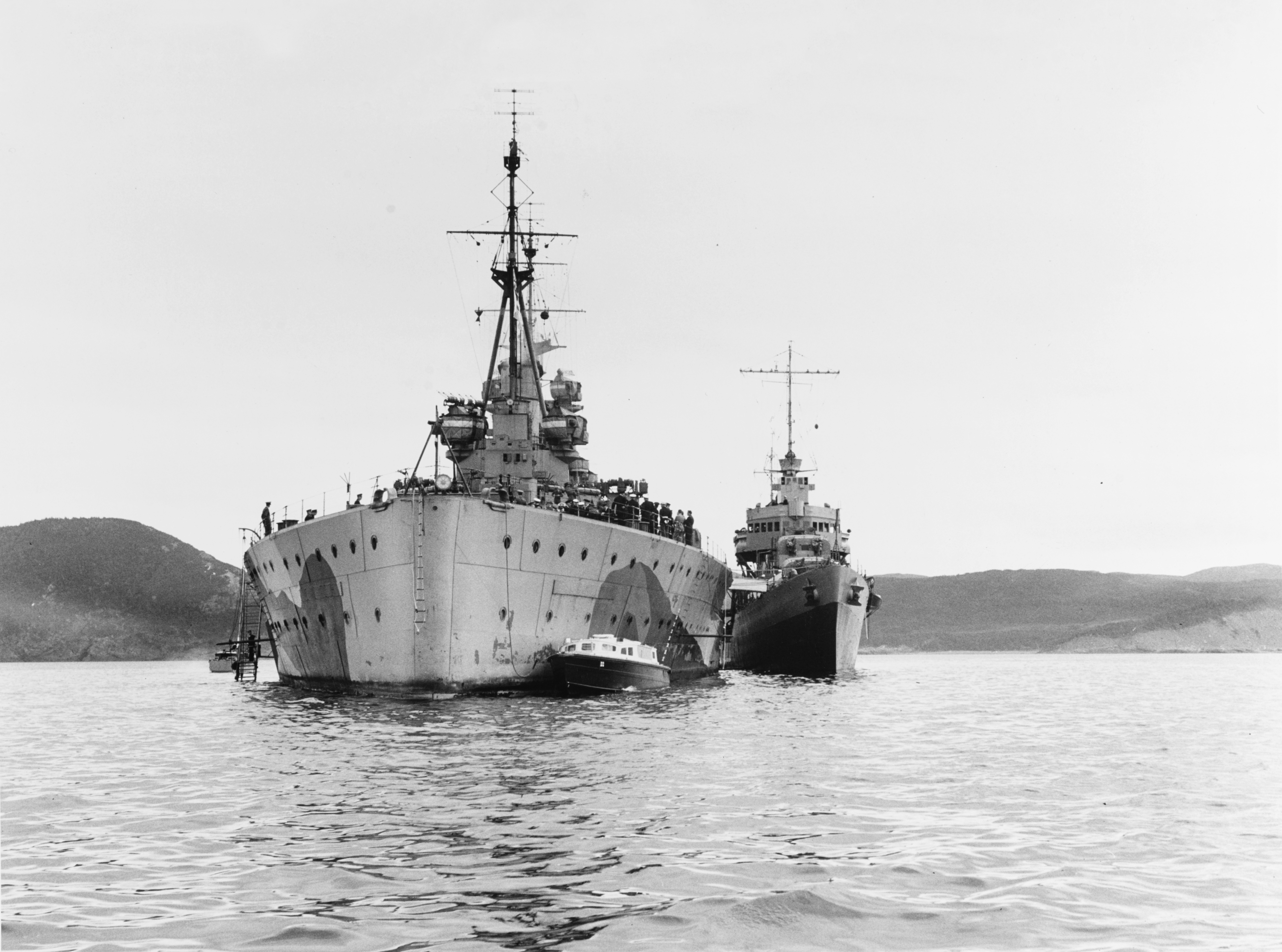 Atlantic Charter Conference, 10-12 August 1941: The U.S. Navy destroyer USS McDougal (DD-358) alongside the Royal Navy battleship HMS Prince of Wales (53), to transfer U.S. President Franklin D. Roosevelt to the battleship for a meeting with British Prime Minister Winston Churchill. The conference took place in Placentia Bay, Newfoundland.